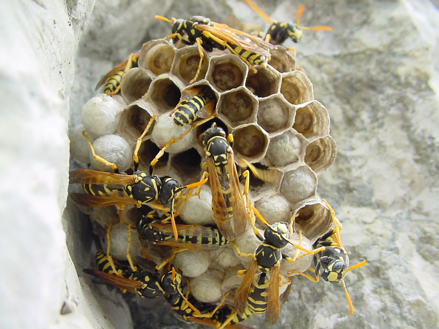 Description: Nest of Polistes sp. Source: my photo Date: 03 Aug 06 Author: Fabio Brambilla Permission: other versions